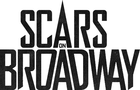 Wordmark of the American band Scars on Broadway. The band started using this logo in the summer of 2012.